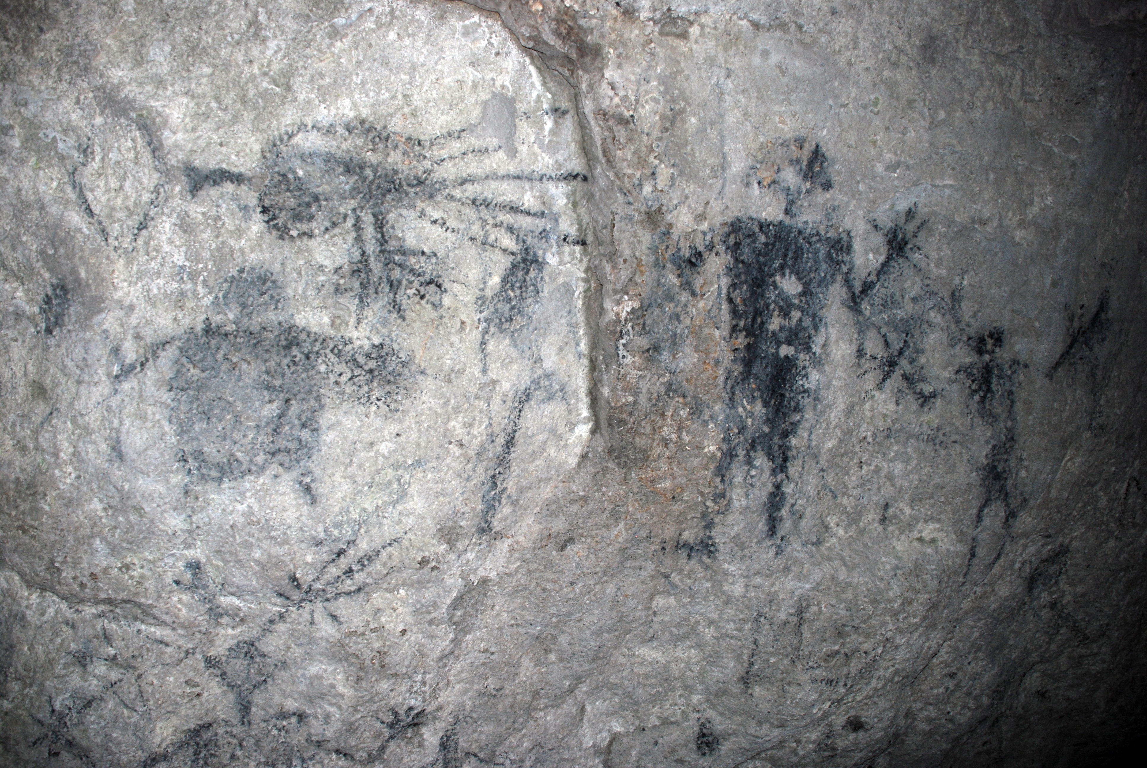 Cave drawings in Fels Cave, Lelepa Island. Dated at about 900AD, but otherwise mysterious. In June 2008 this site and the neighbouring sites associated with the king Roi Mata, were designated as a UNESCO World Heritage site